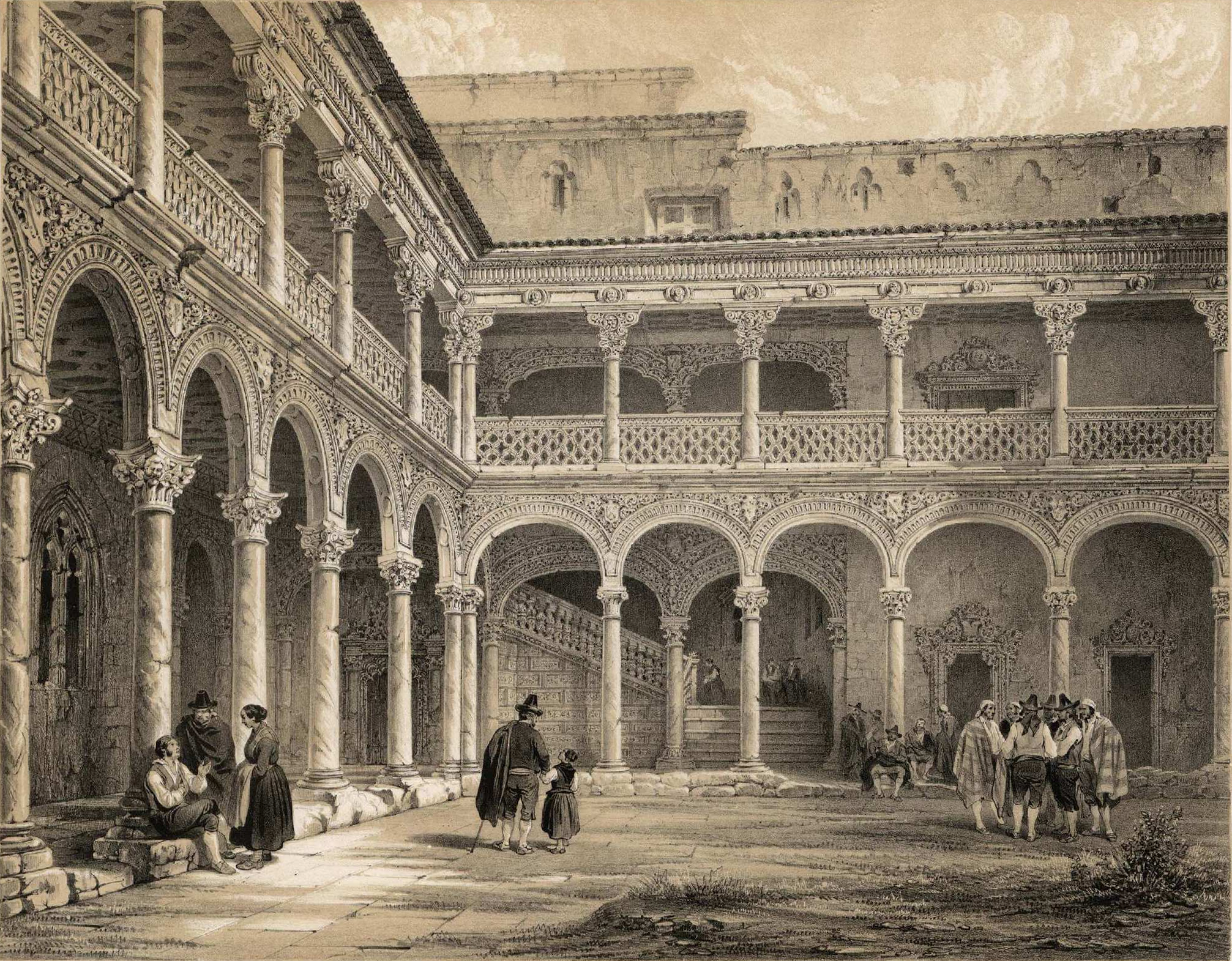 A courtyard that was in Archbishop's Palace of Alcalá de Henares in 1850. Destroyed in 1939 product of a fire afther the Spanish Civil War.